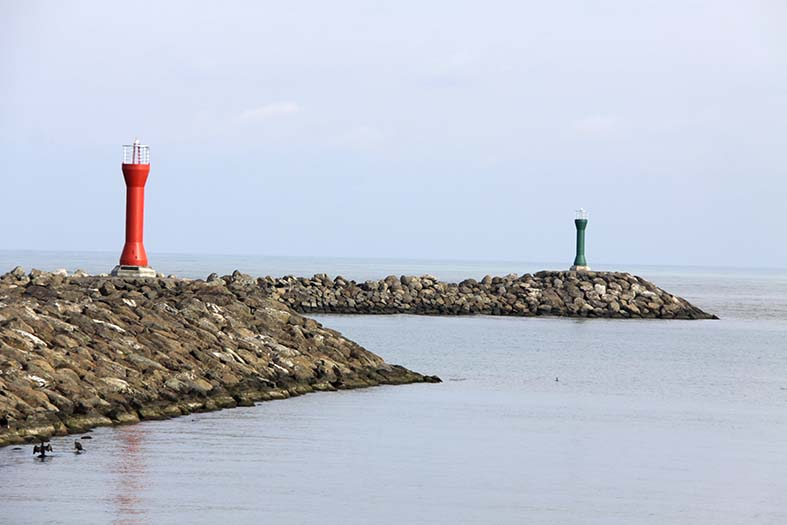 Breakwater Waterfront in Astara port